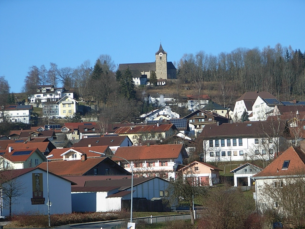 Kirchberg im Wald, general view with St Gotthard Parish Church from south-east.